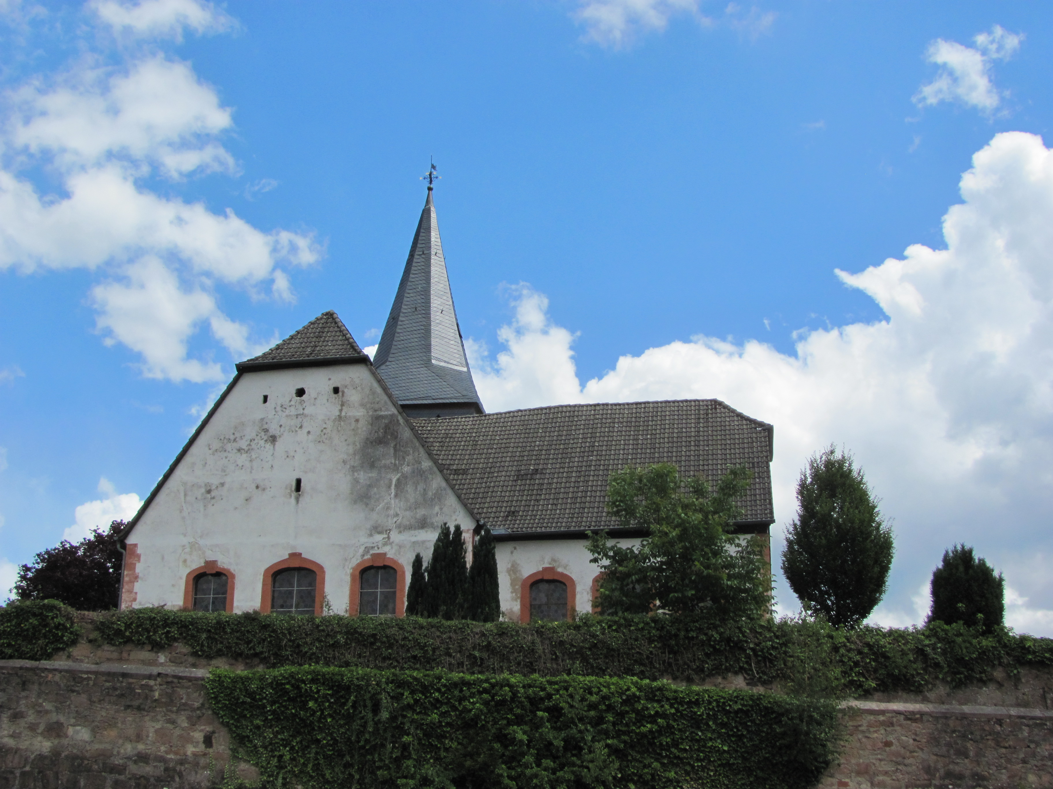 Church St. Laurent ("Upper Church"), Biebergemünd, Bieber